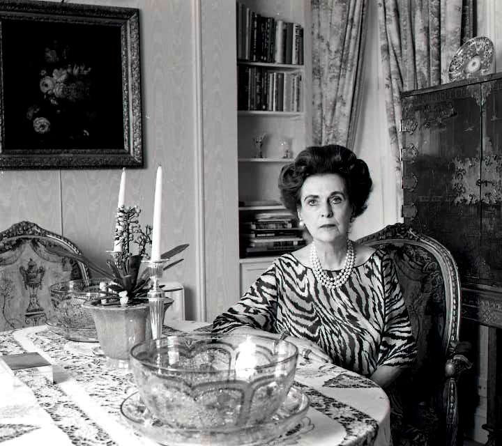 Portrait of Margarett Duchess of Argyll in her dining room in The Grosvenor House London taken by Allan Warren